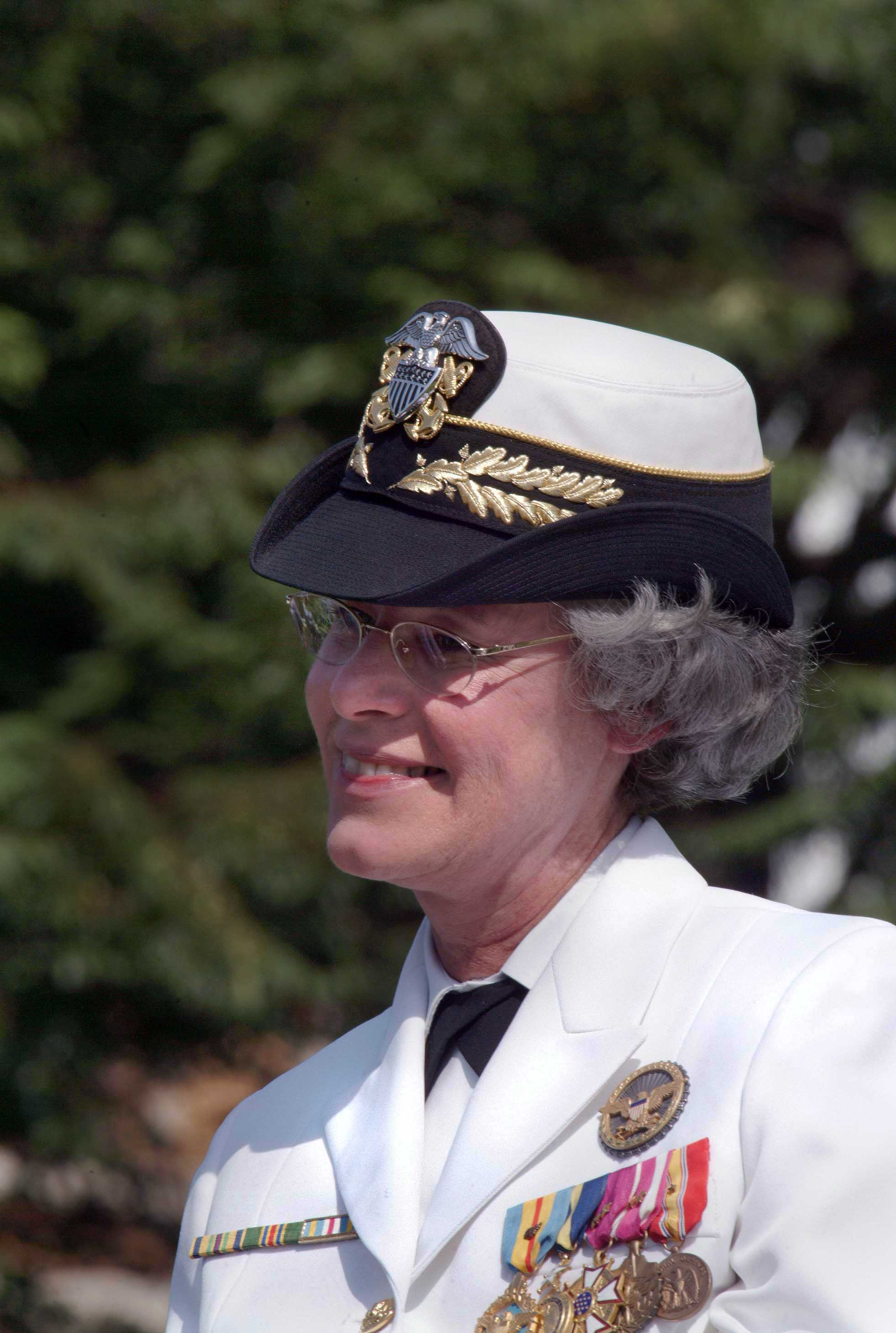 Washington, D.C. (Sept. 02, 2004) - Vice Adm. Patricia Tracey smiles as she ends 34 years of distinguished naval service as the highest ranking woman ever in the Navy. She ends her last tour of duty as Director, Navy Staff (DNS) where she directed a staff of over 1200 personnel in support of the CNO, VCNO and headquarters support functions.